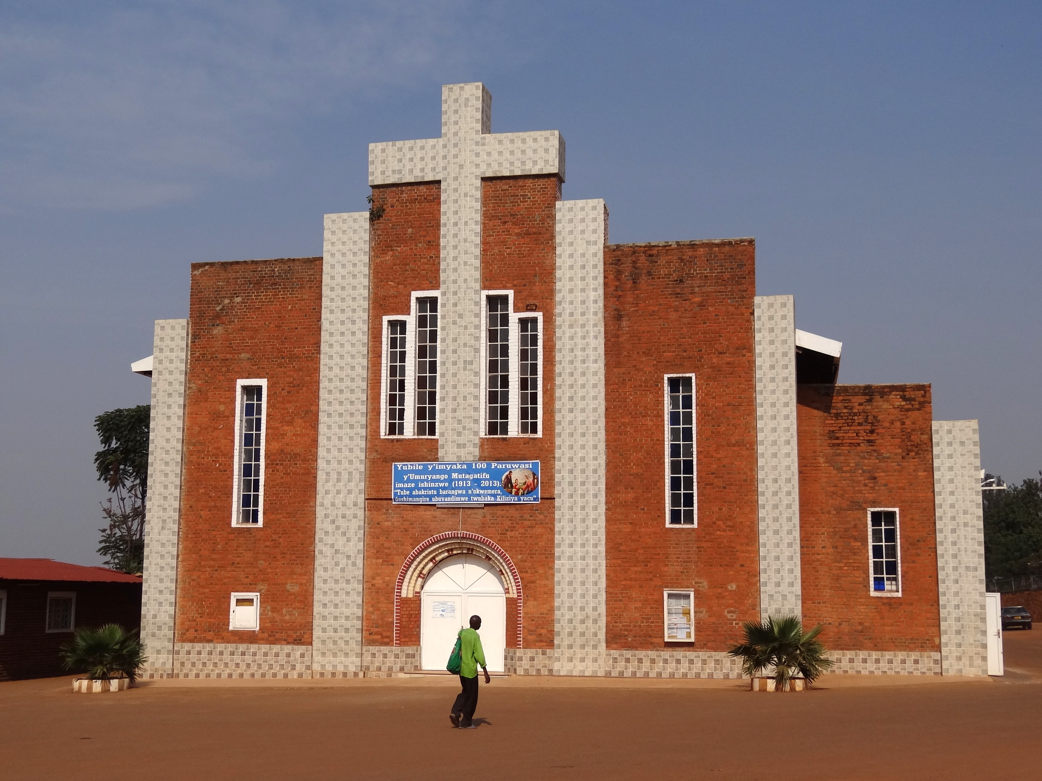 Ste.-Famille Church - Genocide Site - Kigali - Rwanda